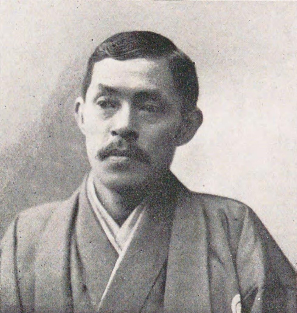 Terasaki Kōgyō, a nihonga painter.